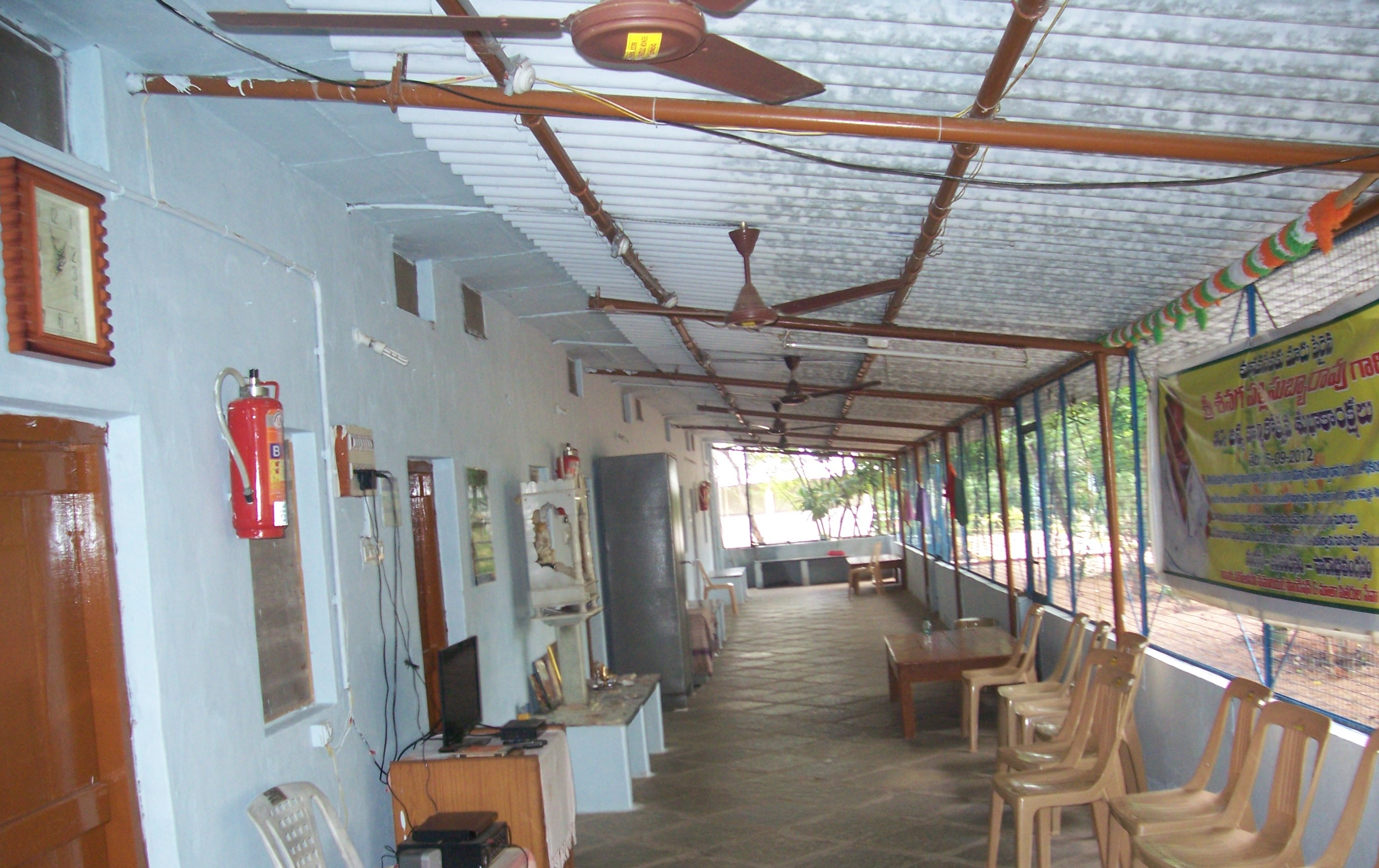 aastramam